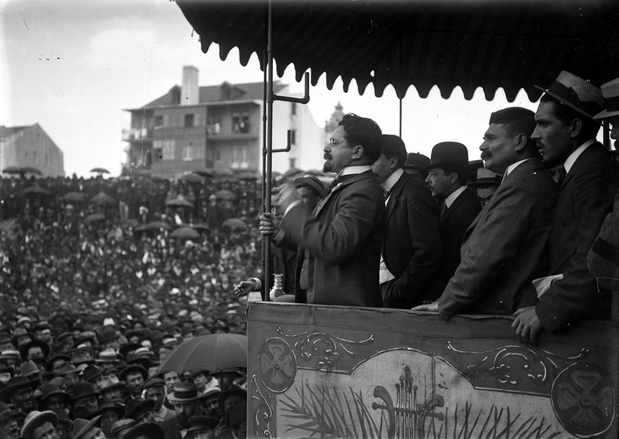 Afonso Costa making a speech in a Republican rally, 1907.